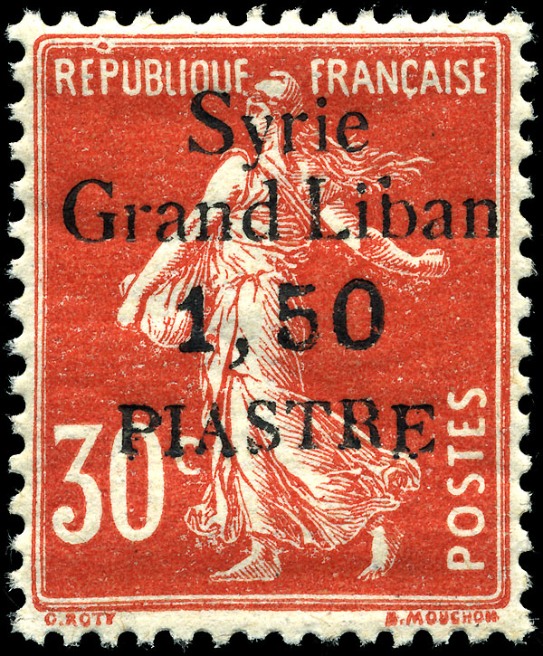 Syrian 1.50-piastre overprint stamp of 1923